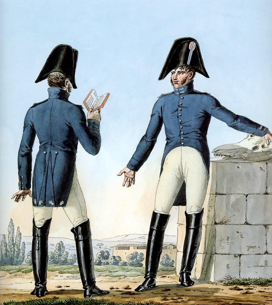 Part of a series chronicling the uniforms of Napoleon's Grande Armée.